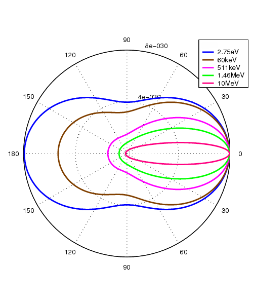 The Klein-Nishina distribution of photon scattering angles over a range of energies. Visible light (2.75eV) will scatter over all angles and results in the light from the solar corona during a total solar eclipse. This is very well described by classical electrodynamics (Thomson Scattering). X rays (60keV) emitted during L to K shell transitions in X ray machines' tungsten targets will favourably scatter forward through the patient although back scattering will also occur. Photons generated through positron anihilation (511keV) during PET will rarely back scatter. Characteristic potassium-40 (1.460MeV) photons found in household salt will scatter forward and rarely back scatter. Gamma-ray bursts (10MeV) almost exclusively forward scatter.